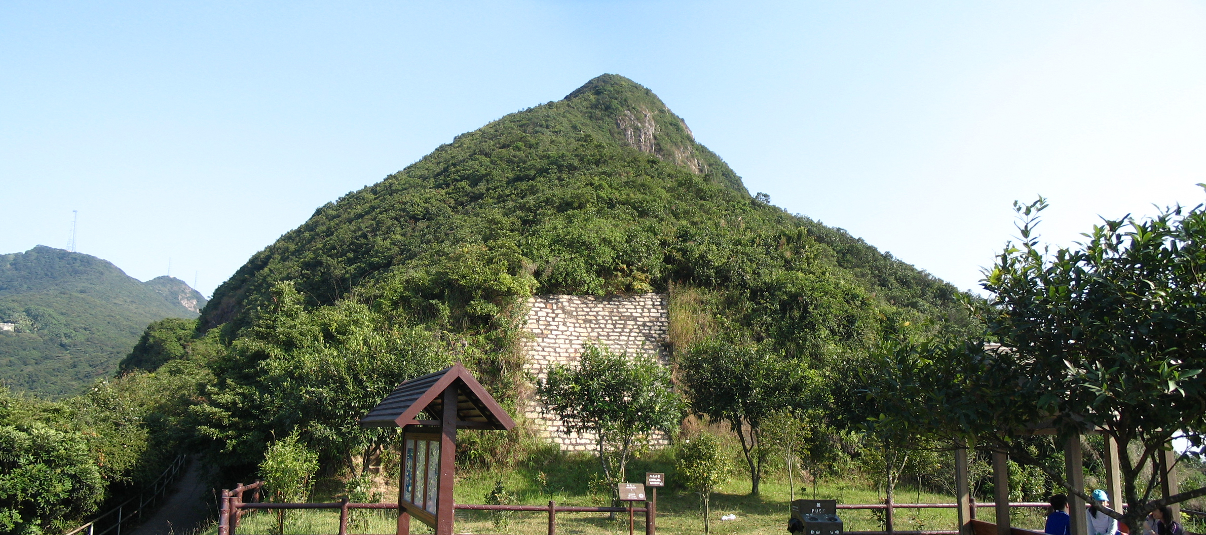 Panoramic photo of High West, combined from 1854328293 and 1855157066